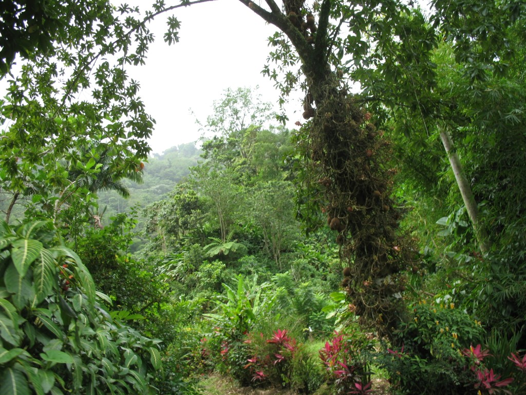 Dominica, natural island in the caribbean